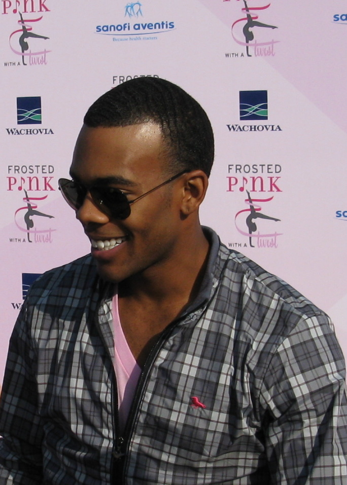 San Diego, California on September 14th, 2008